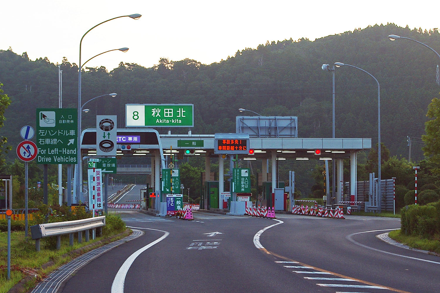 Akita-kita Interchange